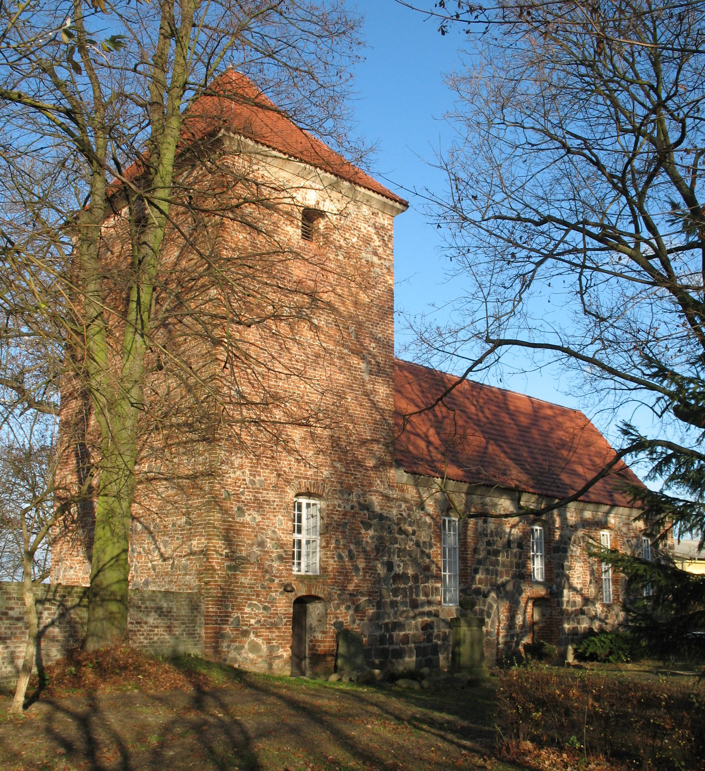 Church in Großbeeren-Kleinbeeren in Brandenburg, Germany